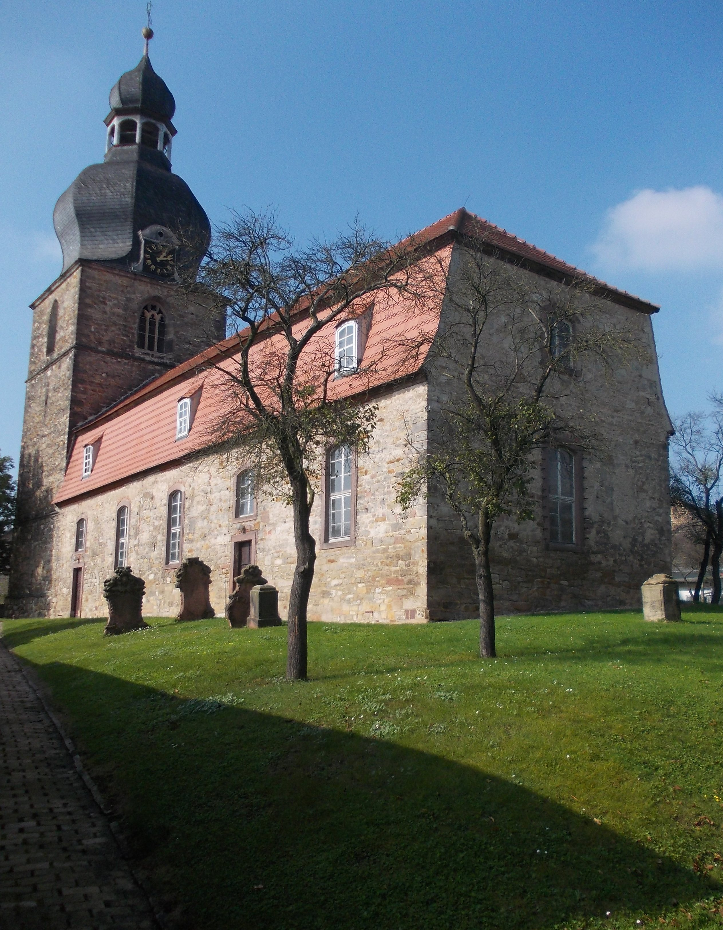 St. Lawrence Church in Teutschenthal (district: Saalekreis, Saxony-Anhalt)